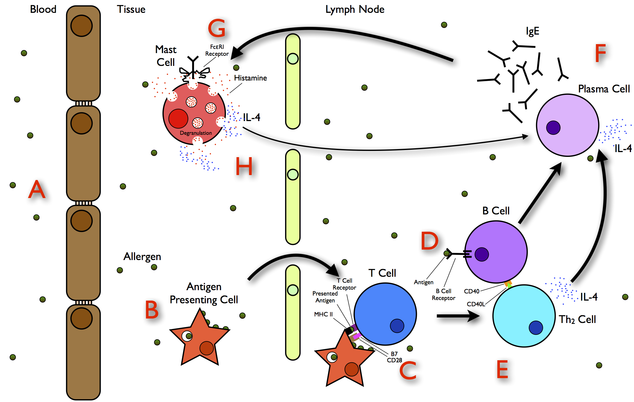 Simplified diagram showing key events that leads to allergy initiation. A. the allergen enters the body.B. an Antigen-presenting cell takes up the allergen molecule and presents its epitopes, through the MHC II receptor, onto its surface. The activated antigen presenting cell then migrates to the nearest lymph node C. where it activates T cells that recognize the allergen. They then give the decision for the T cell to differentiate to Th2 cell.D. at the same time, B cells recognize the allergen and through the activated Th2 cell E. the B cell would be activated. F.and differentiate into plasma cells, at which point they would actively synthesize antibodies of the IgE isotype. G. the IgE antibody, that now recognizes epitopes of the allergen molecule, circulates around the body through the lymphatic and cardiovascular systems and finally binds to its FcεRI receptor on mast and basophil cells. H. when the allergen re-enters the body at a later time it binds to the IgE, which is on the cell surface, resulting in an aggregation of the receptor causing the cells to release pre-formed mediators. One of these mediators is histamine which causes the 5 symptoms of allergic inflammation: heat, pain, swelling, redness and itchiness. Another mediator is IL-4, which affects more B cells to differentiate into plasma cells and produce more IgE and thus the vicious cycle continues.